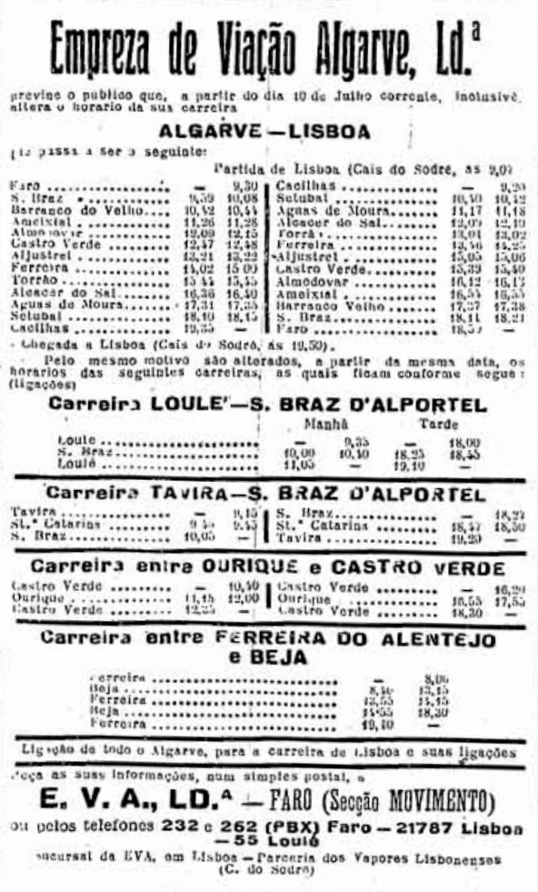 Timetable of Empreza de Viação Algarve, a company that operated bus services in southern Portugal. This image was published on the A Capital newspaper no. 5319, of the 13th July 1937, and scanned by the Hemeroteca Municipal de Lisboa.